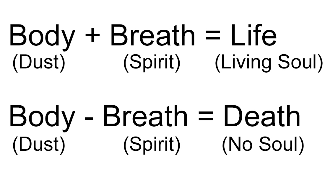 The equation of live and death according to the Biblical creation story